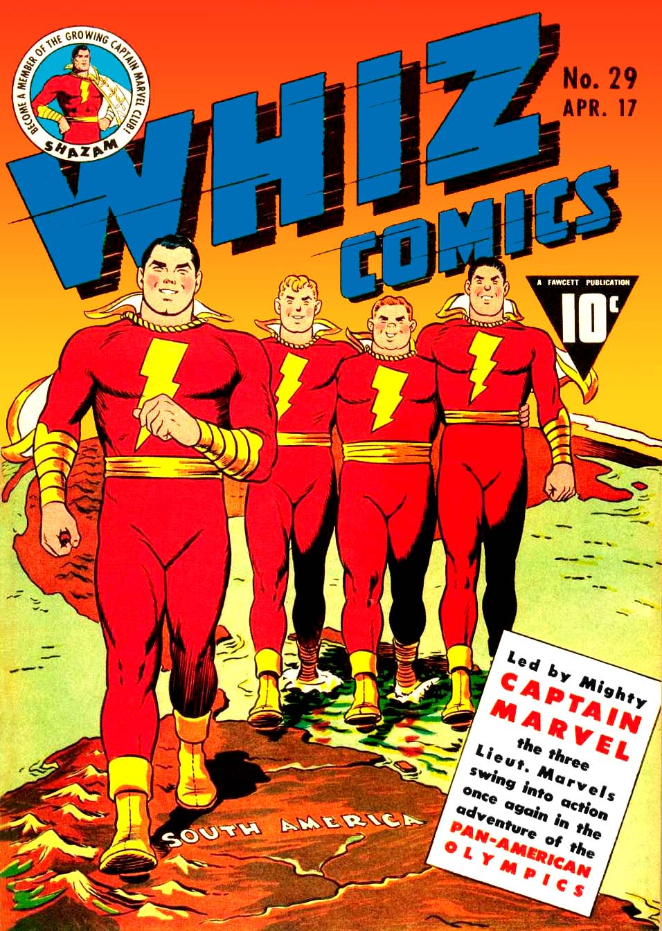 Captain Marvel and his Three Lieutenants stride over the Isthmus of Panama on the cover of Whiz Comics number 29 (April, 1942). Debuting in 1941, the Three Lieutenant Marvels would make recurring appearances until the end of the decade. At the height of his popularity, Captain Marvel outsold every other superhero title on the newsstand, including DC's top three.